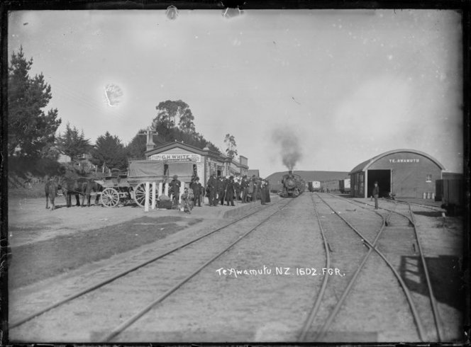 Te Awamutu Railway Station about 1909. Radcliffe, Frederick George, 1863-1923 : New Zealand post card negatives. Ref: 1/2-006260-G. Alexander Turnbull Library, Wellington, New Zealand.